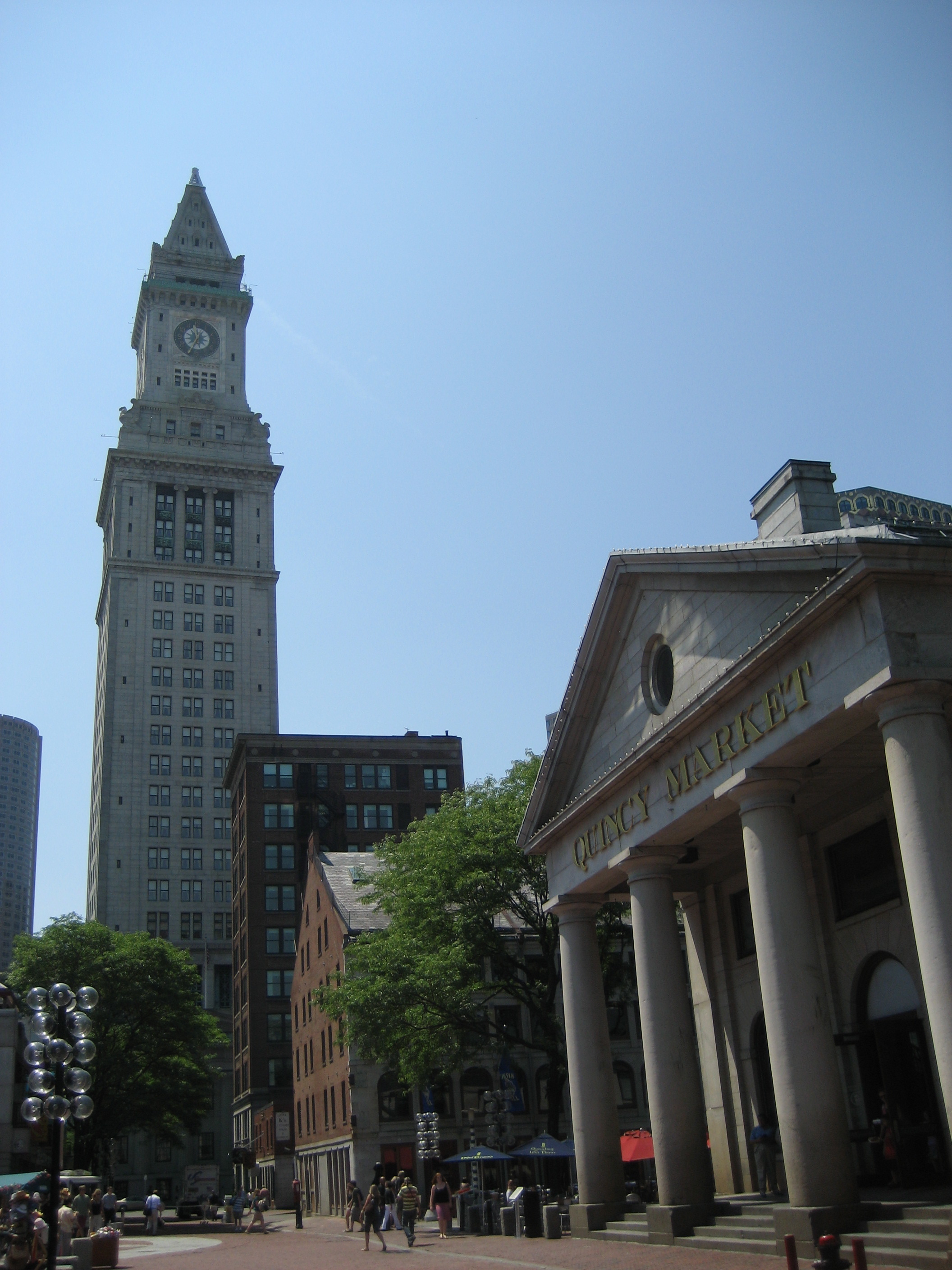 Boston Massachusetts: Quincy Market